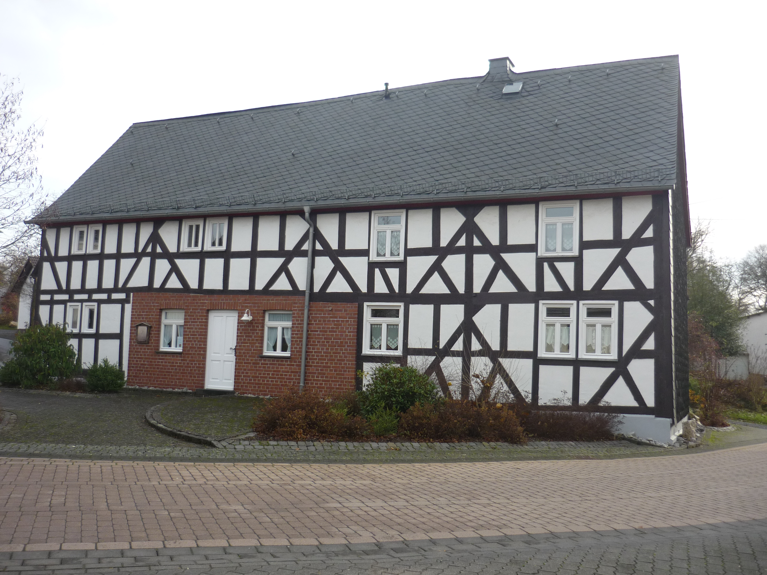 Giesenhausen Westerwald